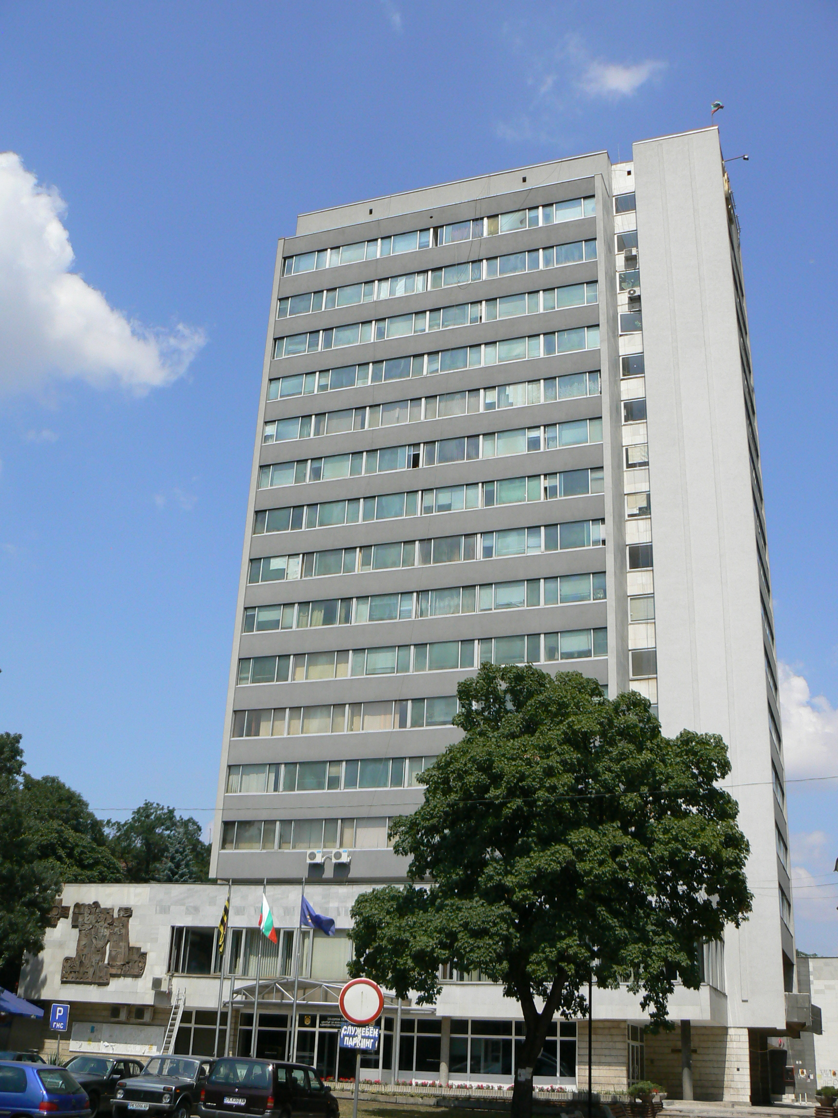 The building of Pernik municipality and Pernik district government. Pernik, Bulgaria